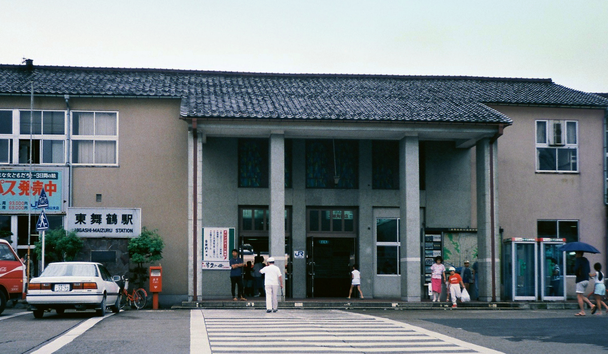 Higashi-Maizuru Station in 1988, Maizuru City, Kyoto prefecture, Japan.